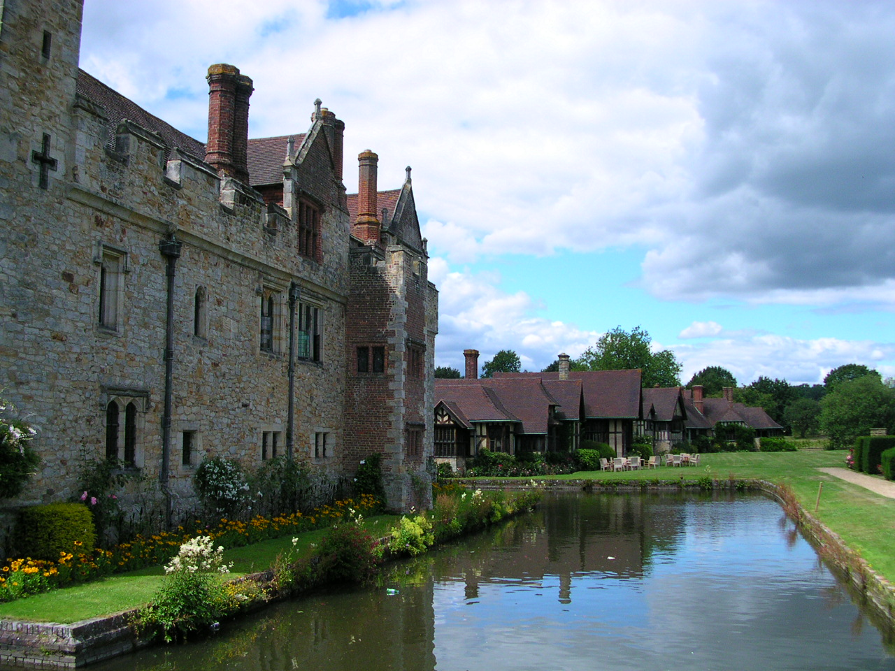 The north side of Hever Castle, Kent, England.